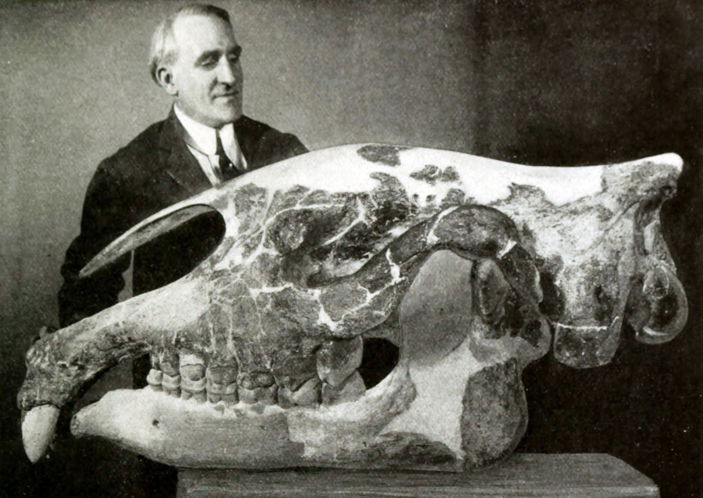 Preparator Otto Falkenbach with skull of Paraceratherium transouralicum (specimen AMNH 18650), formerly assigned to Baluchitherium grangeri).